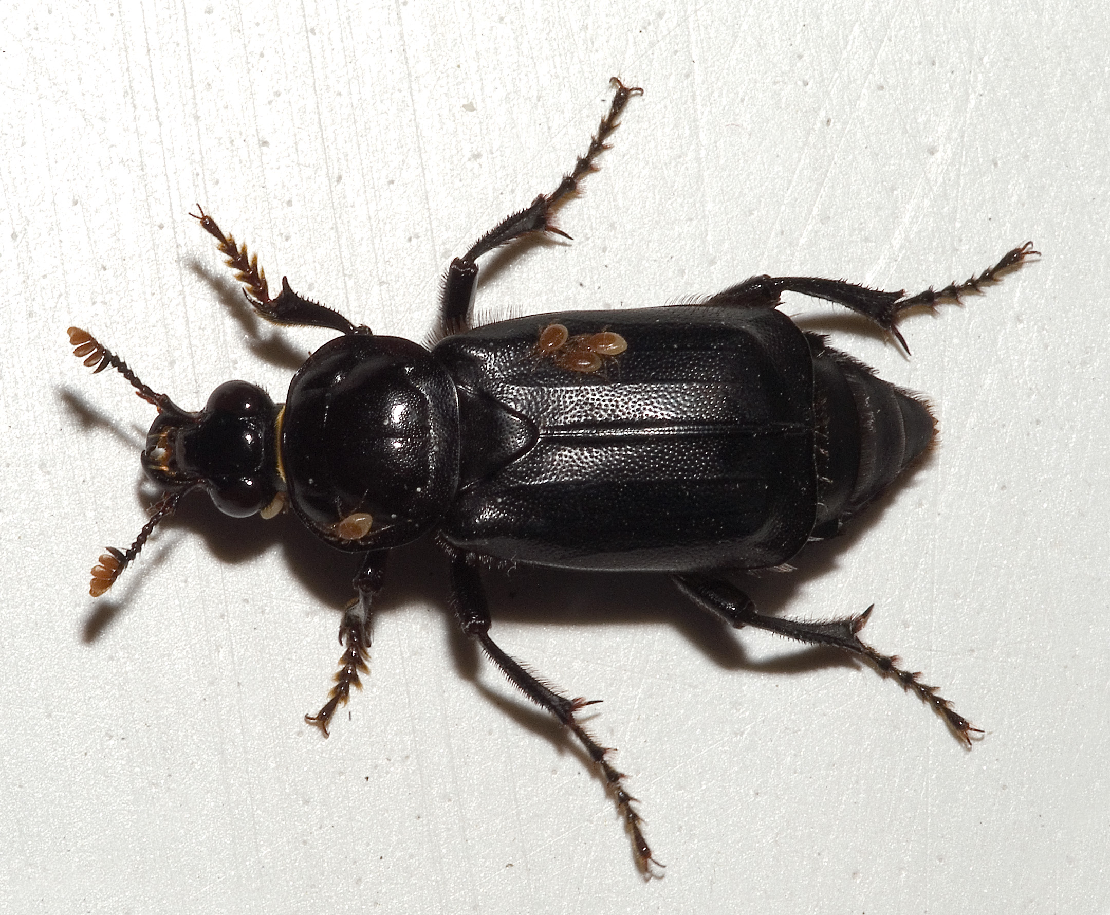 Please report references to kulacgmx.at.